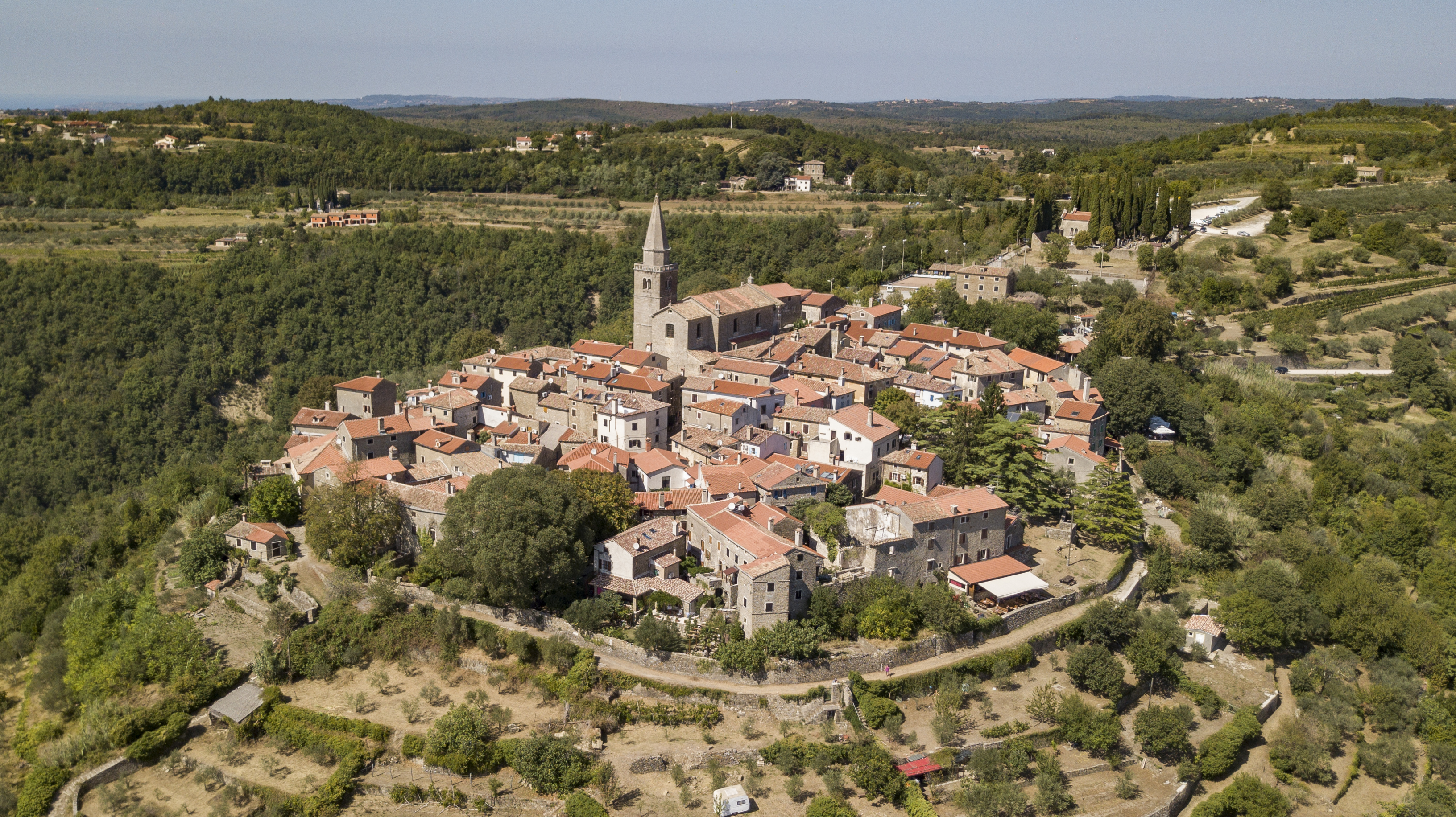 Aerial view of Grožnjan, Croatia